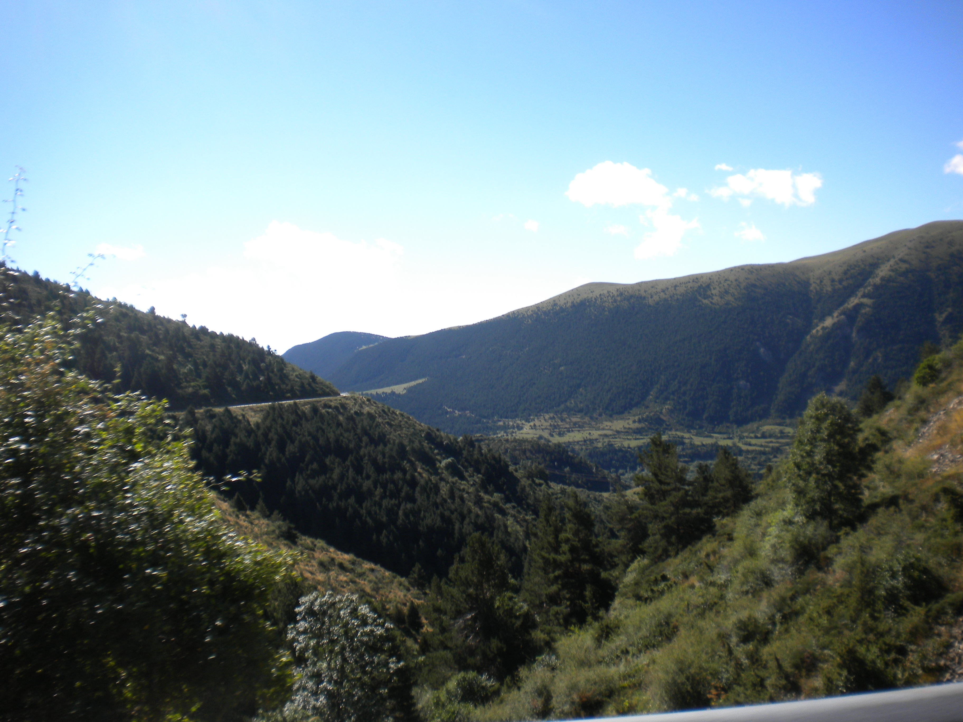 View of Serra de Montgrony.